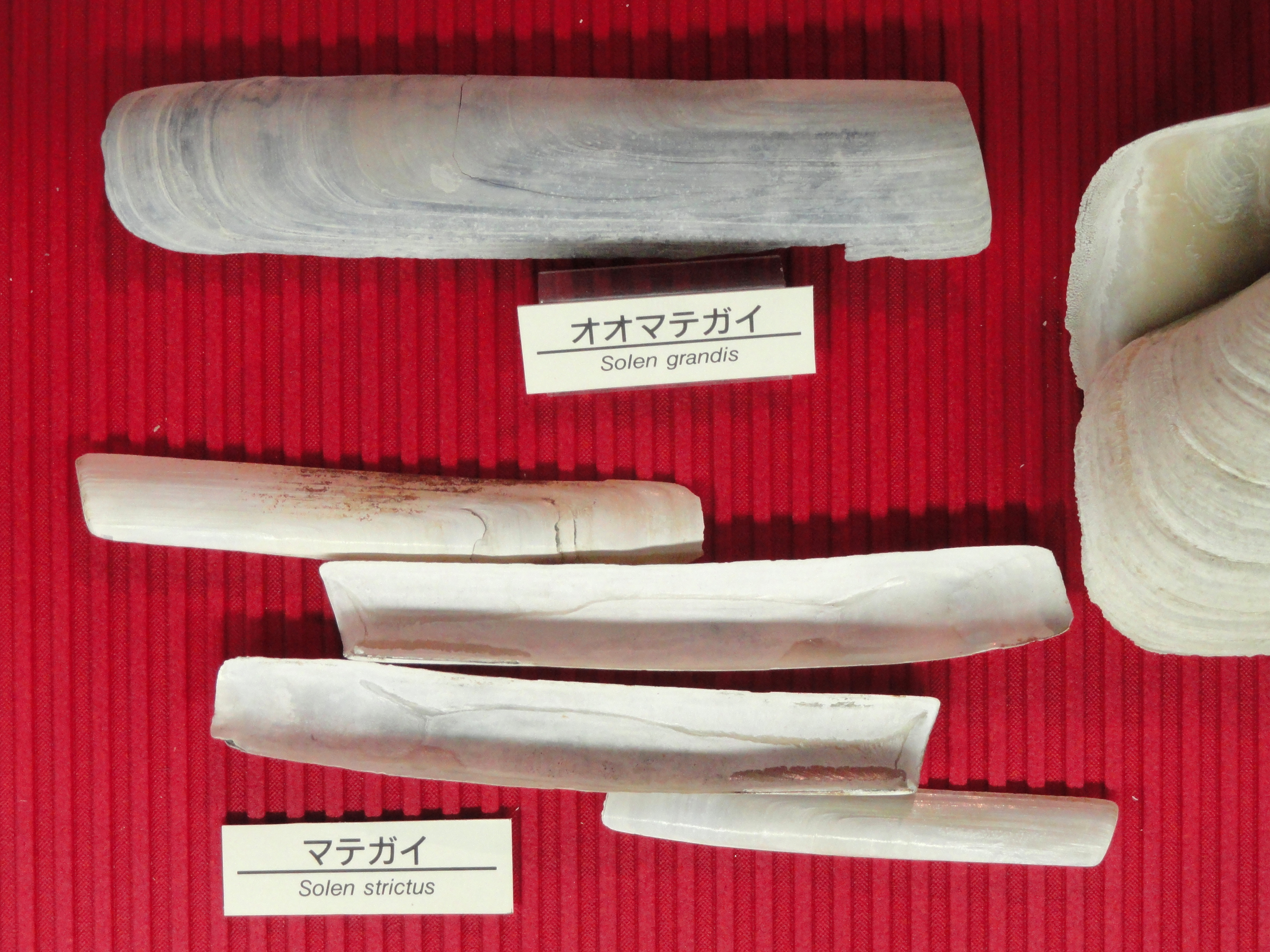 Exhibit in the Osaka Museum of Natural History, Osaka, Japan.